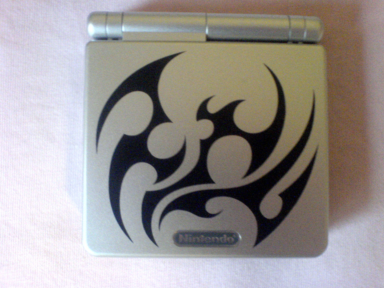 A photo of a Game Boy Advance SP taken by my self (Cerastes)